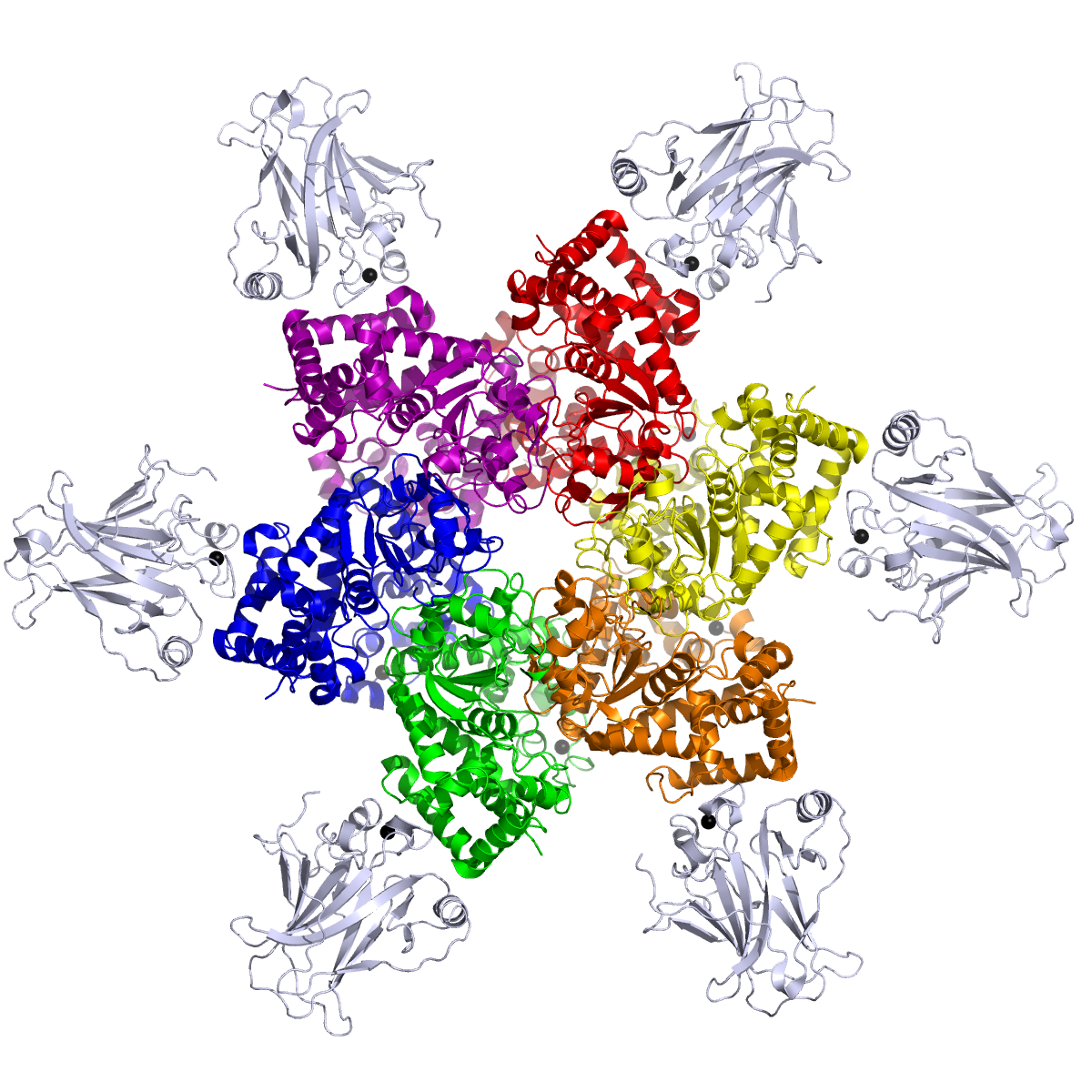 The hexameric assembly of the SV40 polyomavirus large tumor antigen (LTag) zinc finger and helicase domains (rainbow) bound to the human tumor suppressor p53 (light blue). This interaction is one of several protein-protein interactions between the virally encoded LTag and host cell proteins, and is known to be critical to LTag's ability to induce cellular transformation. Compare File:5tct LTag DNA.png, showing the same protein bound to double-stranded DNA. Rendered from PDB ID 2H1L: Genes Dev. 2006 Sep 1;20(17):2373-82. Crystal structure of SV40 large T-antigen bound to p53: interplay between a viral oncoprotein and a cellular tumor suppressor. Lilyestrom W1, Klein MG, Zhang R, Joachimiak A, Chen XS. PMID: 16951253